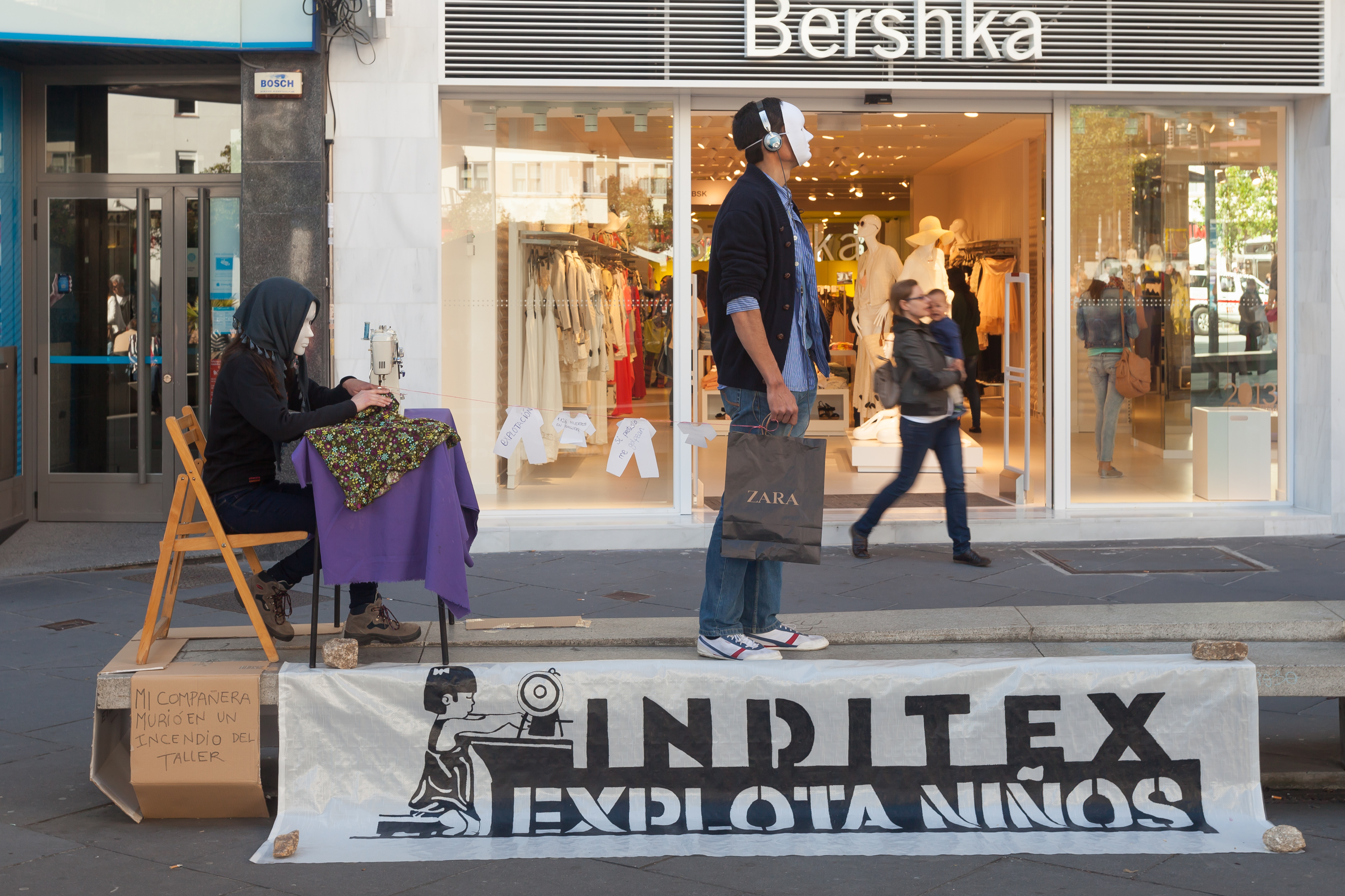 SAIN (political party): Inditex (ZARA) exploited children, Santiago de Compostela, Galicia (Spain)